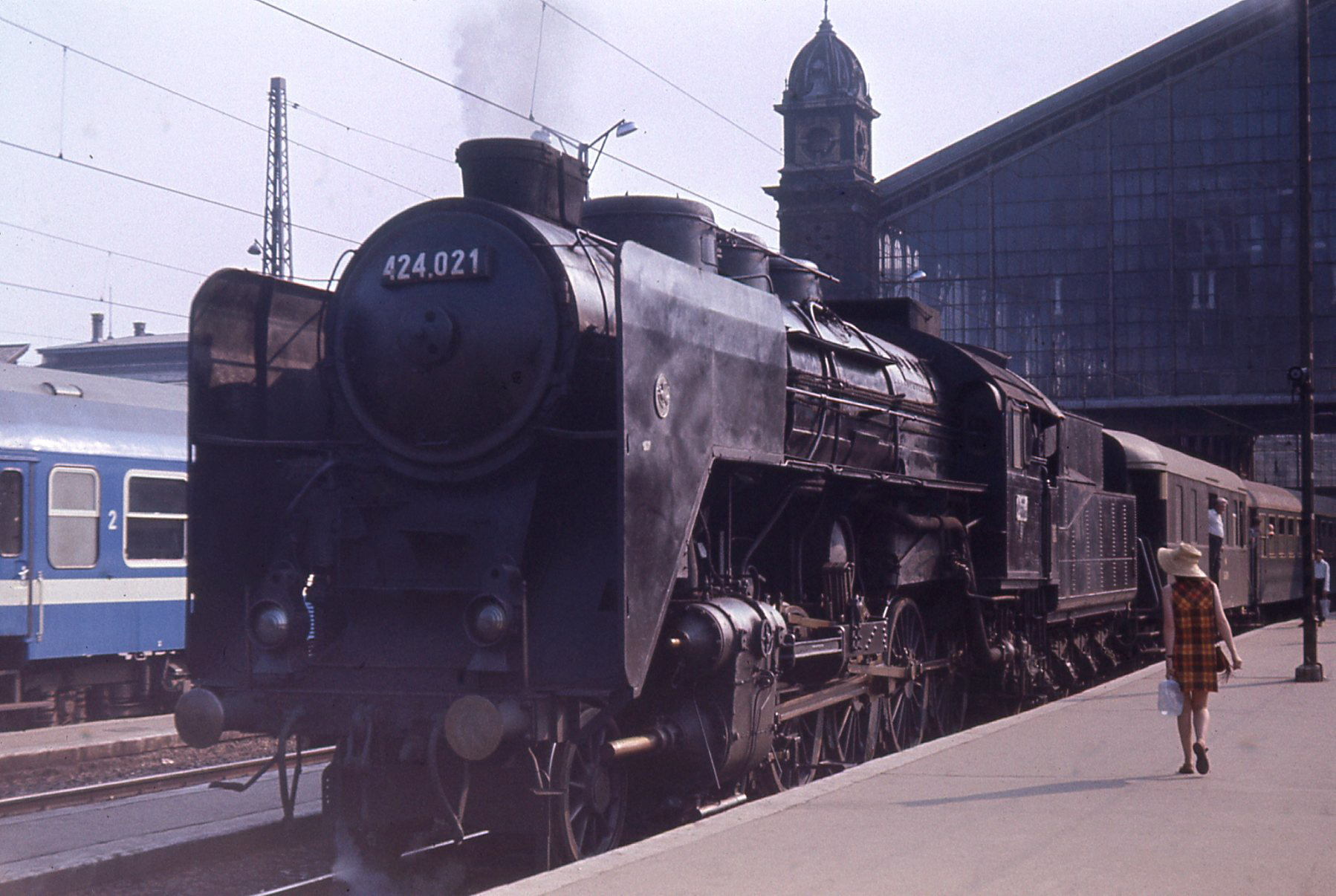 Hungarian 4-8-0 locomotive at Budapest West — Attribution-Sharealike 3.0 license.